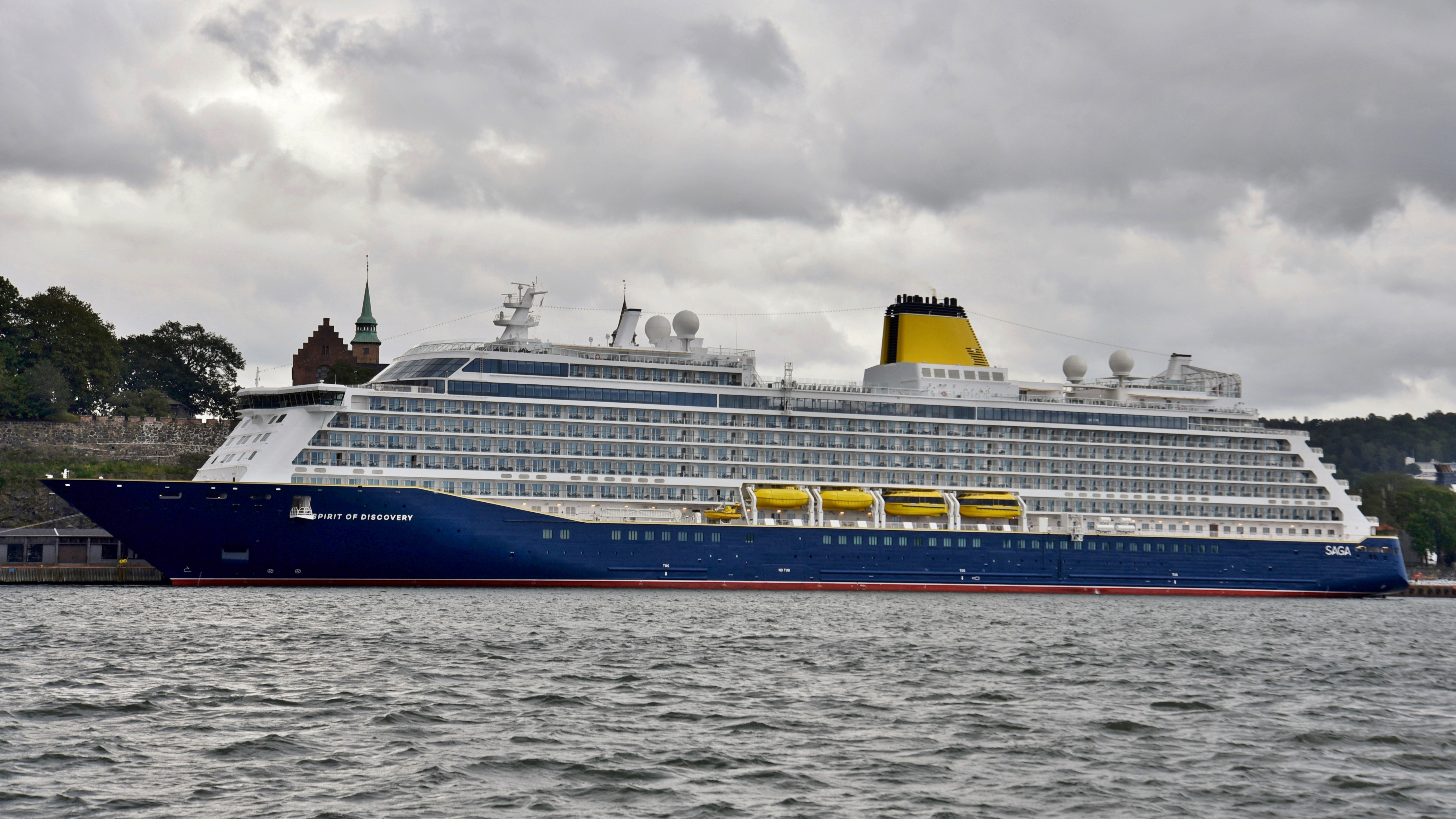 The cruise ship Spirit of Discovery berthed at Oslo